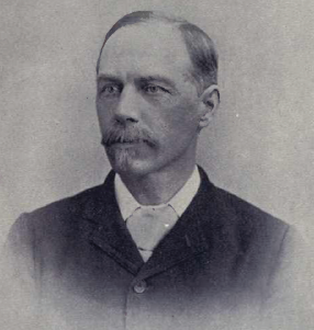 Daniel Hunter McMillan Source: The Canadian album : men of Canada; or, Success by example, in religion, patriotism, business, law, medicine, education and agriculture; containing portraits of some of Canada's chief business men, statesmen, farmers, men of the learned professions, and others; also, an authentic sketch of their lives; object lessons for the present generation and examples to posterity (Volume 3) (1891-1896) Creator: Cochrane, William, 1831-1898 Creator: Hopkins, J. Castell (John Castell), 1864-1923 Publisher: Brantford, Ont. : Bradley, Garretson & Co. Date: 1891-1896